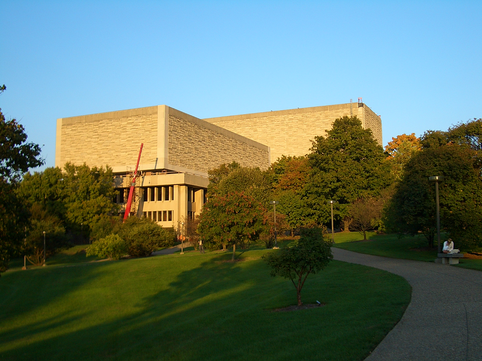 IU Bloomington Main Library, seen from the west (the Arboretum side)